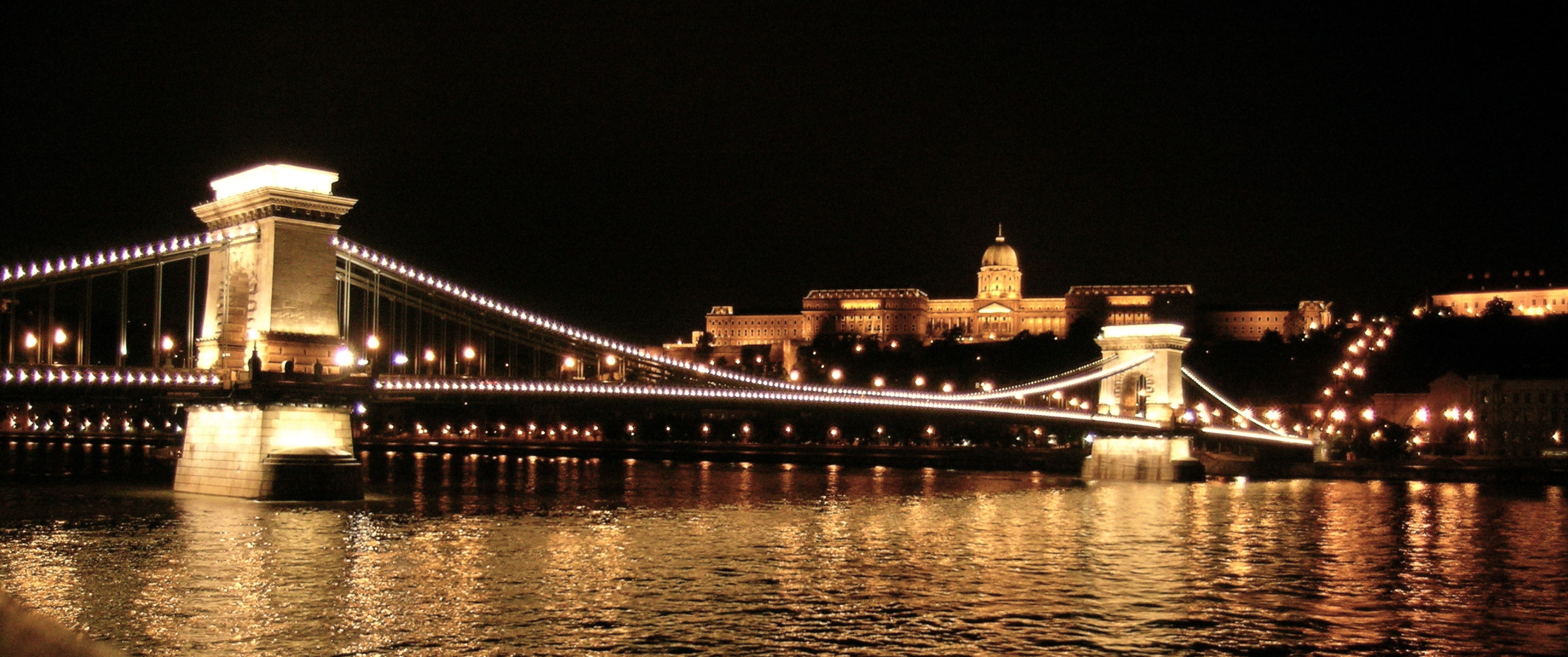 Bridge in Budapest